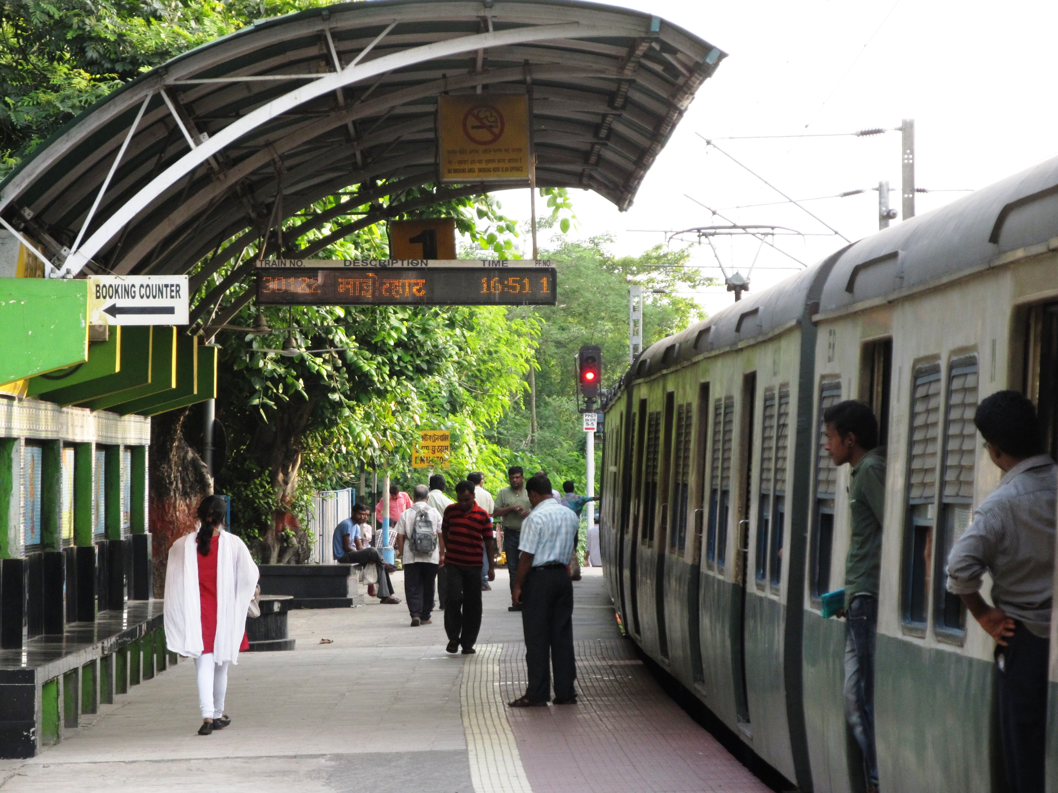 BBD BAG STATION